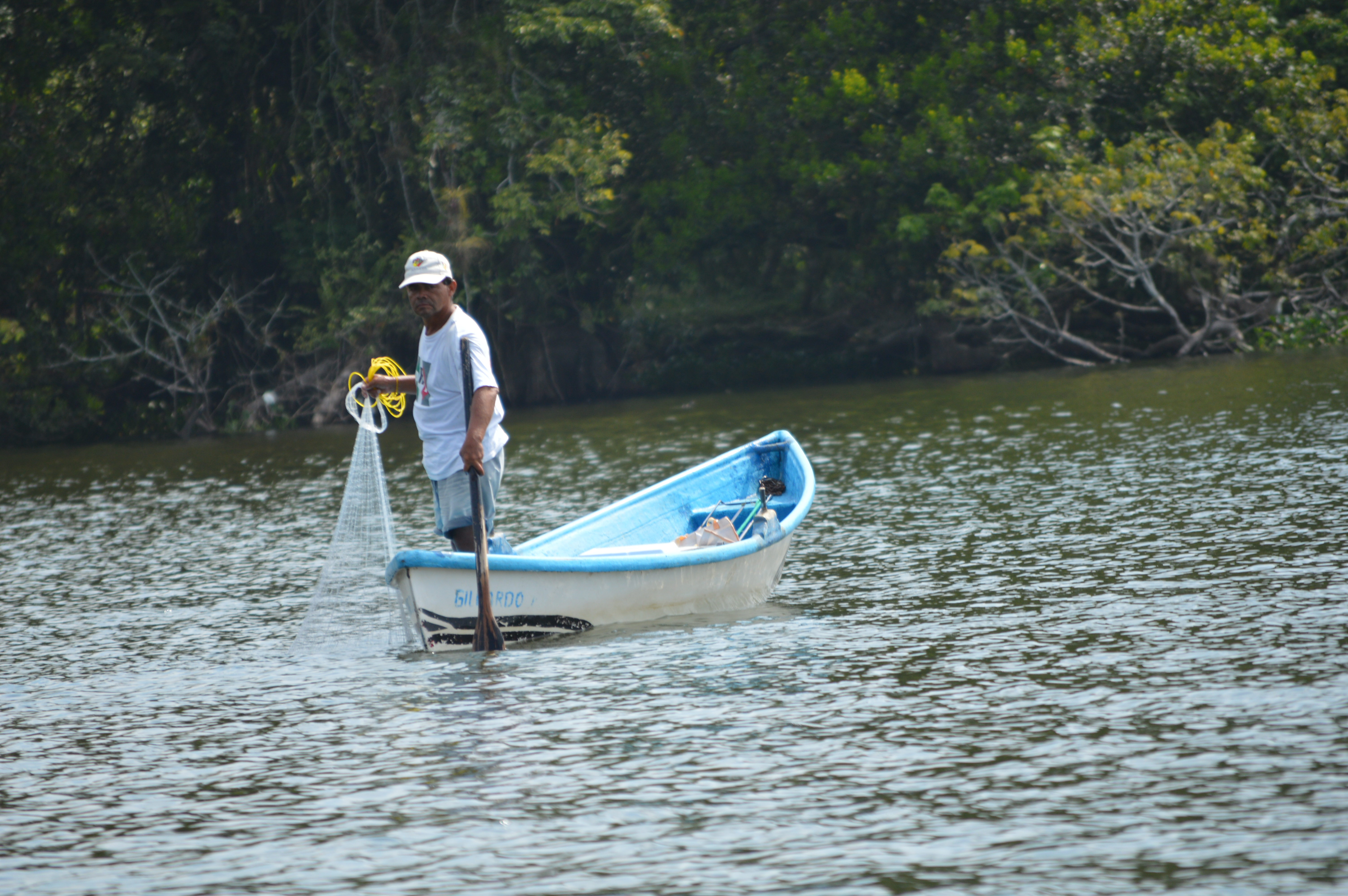 fisherman on Lake Catemaco, Veracruz, Mexico